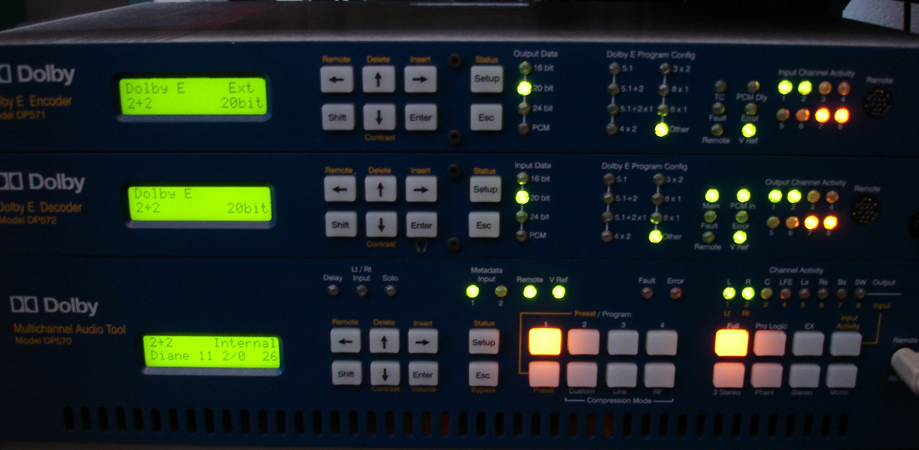 Dolby E encoders and decoders.